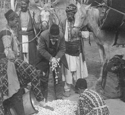 Stereoscope photograph by Underwood & underwood,1895-1900 titled "Expert purchasing silk cocoons, for export to France, Antioch,Syria". The cocoons were exported mainly to Lyon, France, to be reeled, and the manufactured silk was exported to New York, London and back to the Middle East. Local manufacturing was limited to silk used in the production of the Damascene Brocade. The coastal regions of Syria from Antioch to the mountains of Lebanon, where the Mullbery trees were grown were active in the industry. "This is very busy time of the year, and as you see, the factory has animated, picturesque and eminently Oriental appearance-groups of men, women and children weighing, bargaining, and selling cocoons; horses, mules, and donkeys loaded with cocoons; boxes, sacks, and bags filled with cocoons". THE LAND AND THE BOOK, W.M. THOMPSON, 1886.